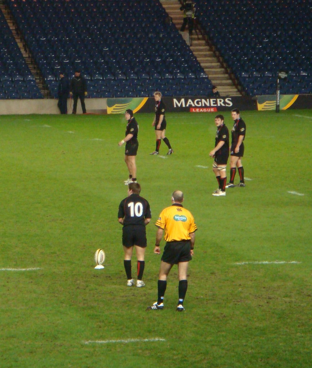 Phil Godman attempting a penalty kick for Edinburgh Rugby against Munster in the 2008 Magners League.